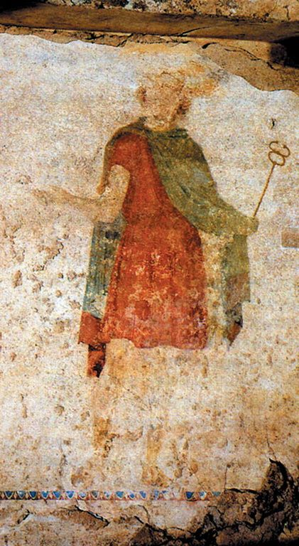 Fresco from the Tomb of Judgment in ancient Mieza (modern-day Lefkadia), Imathia, Central Macedonia, Greece, showing religious imagery of the afterlife. For more information, see Municipality of Naoussa webpage entitled "The Macedonian Tomb of Judgment".